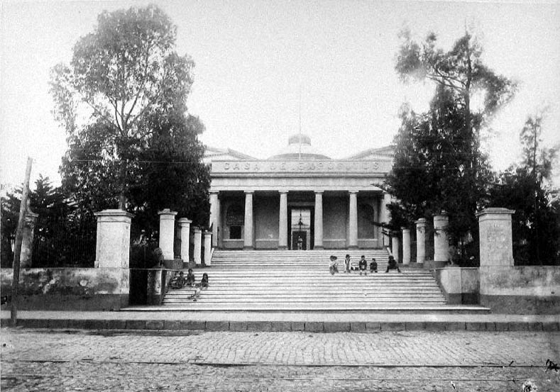 The "Casa de Expósitos" of Buenos Aires, then "Casa Cuna", currently the Hospital General de Niños Dr. Pedro de Elizalde.